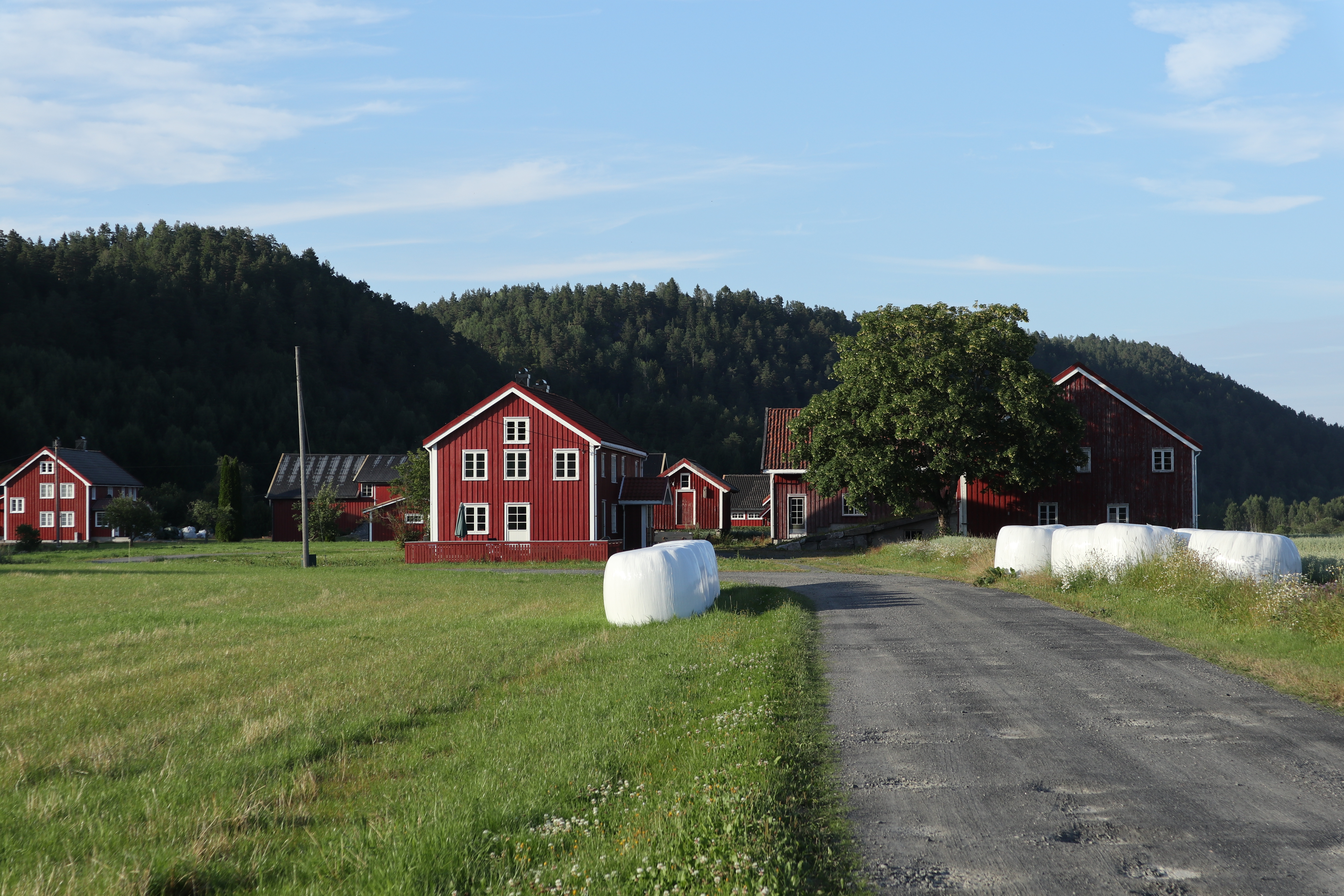 Gården Fidje i Froland